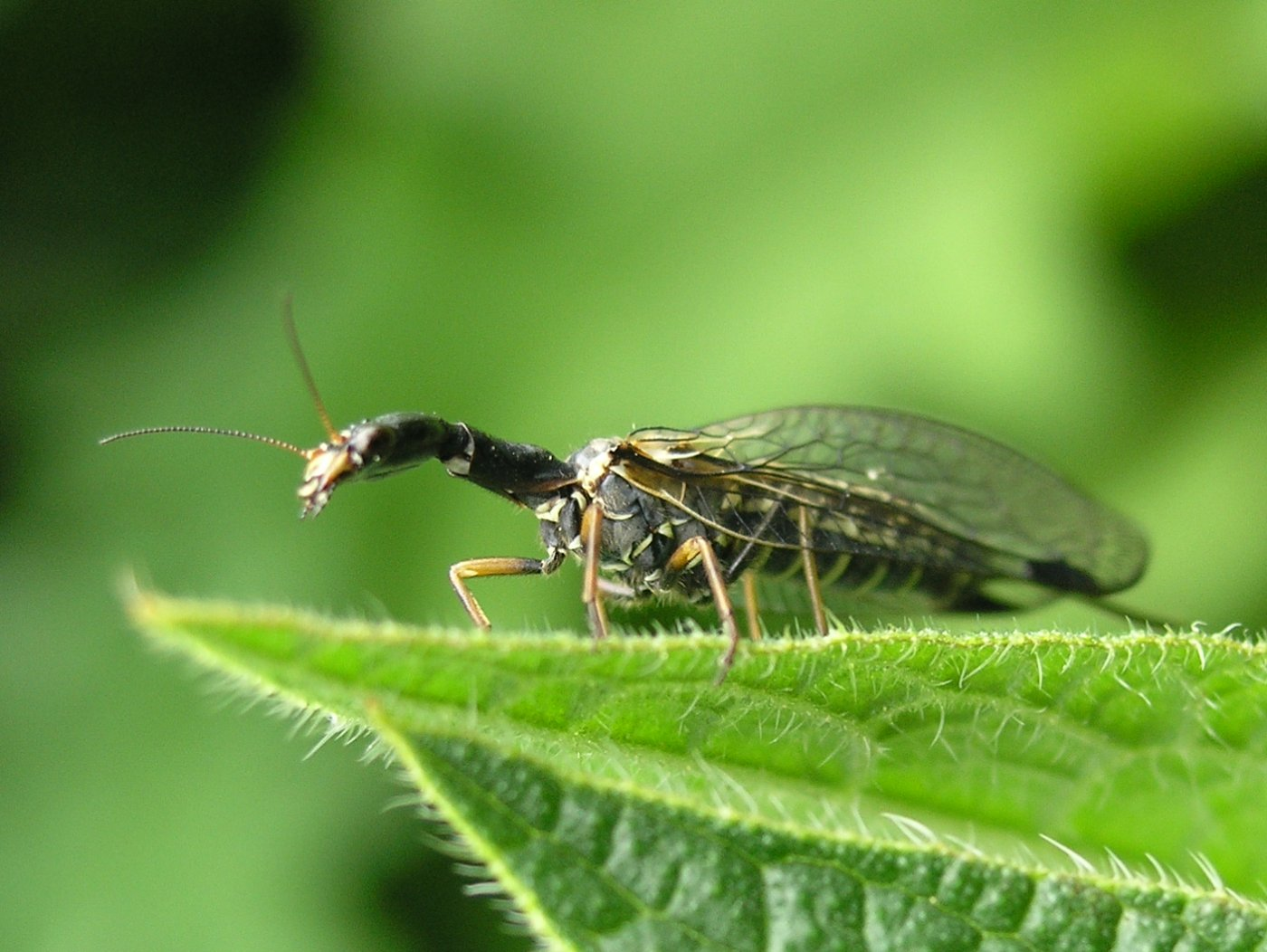 Snakefly (Raphidioptera) of species Phaeostigma notata, familie Raphidiidae; Location: Münster, NRW, Germany